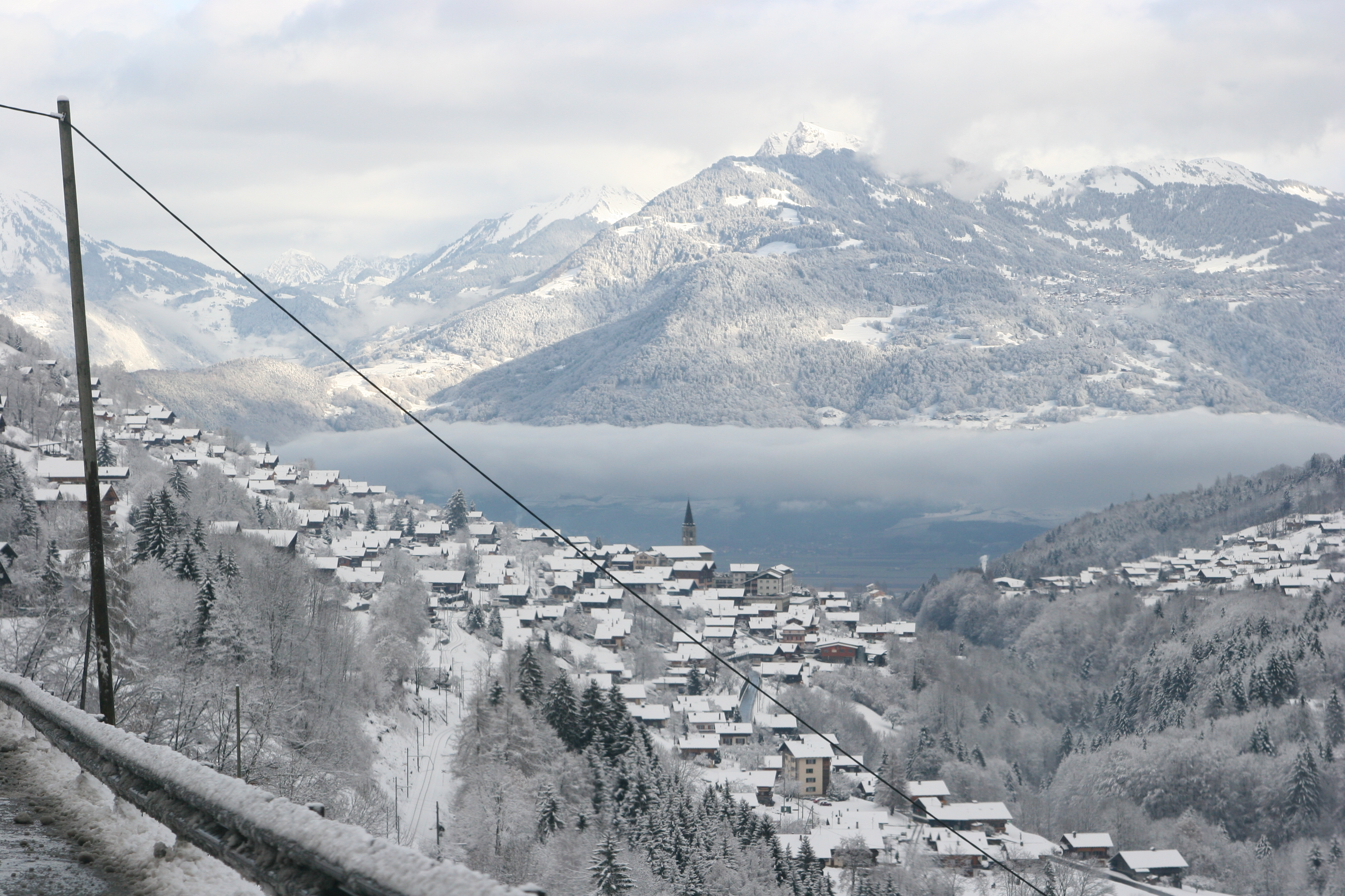 View of Troistorrents, Valais, Switzerland, while dropping over the pass into the Rhone Valley